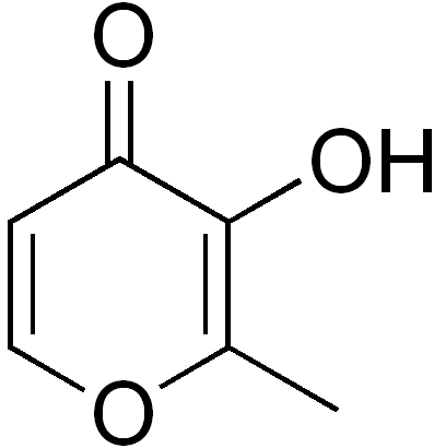 chemical structure of maltol